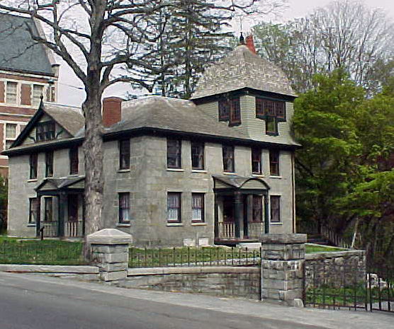 Tenney Gatehouse,37 Pleasant Street, Methuen Massachusetts, Home of the Methuen Historical Society, entrance to Greycourt State Park.